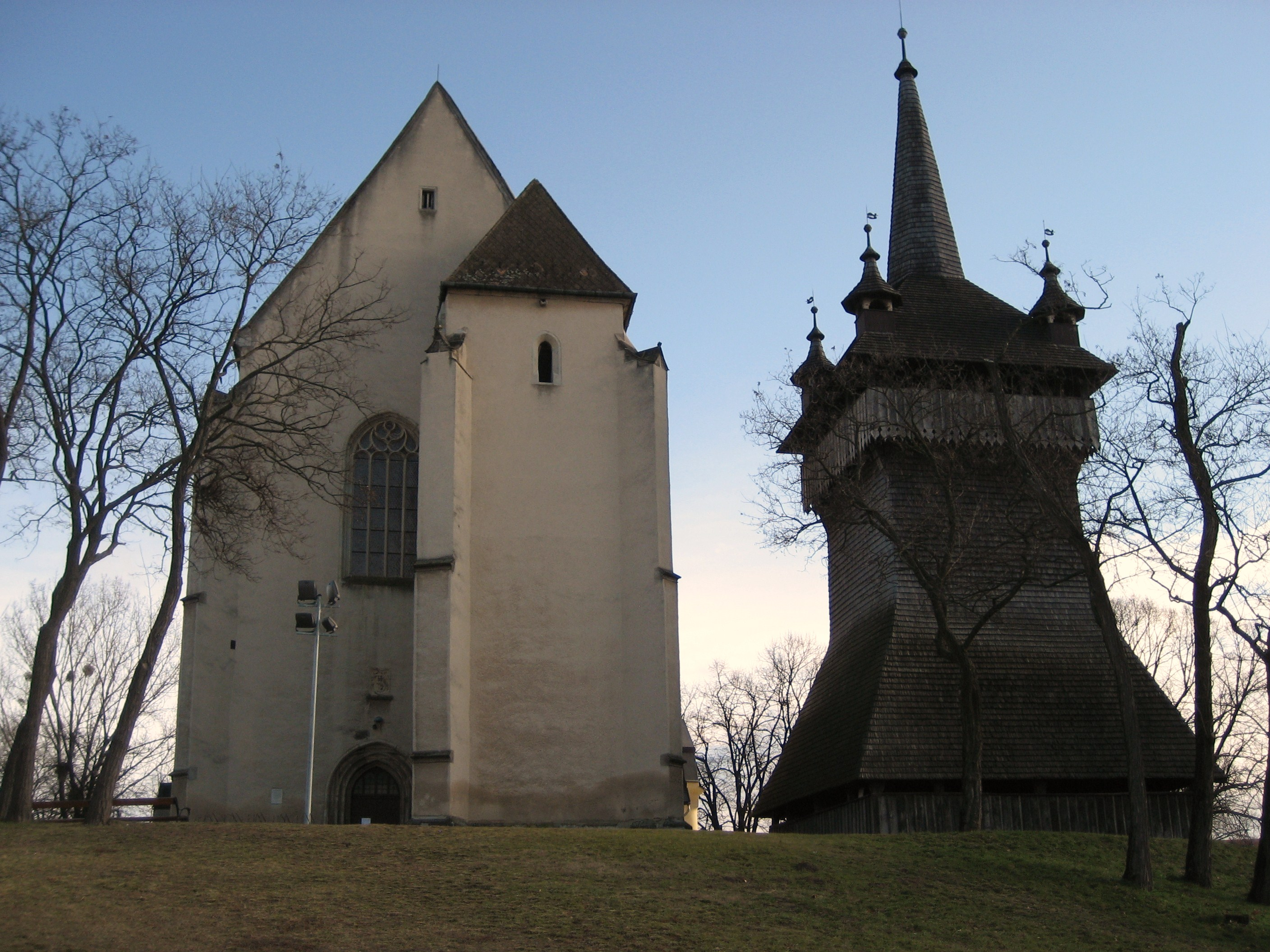 Church in Nyírbátor in the Northeast of Hungary, Europe